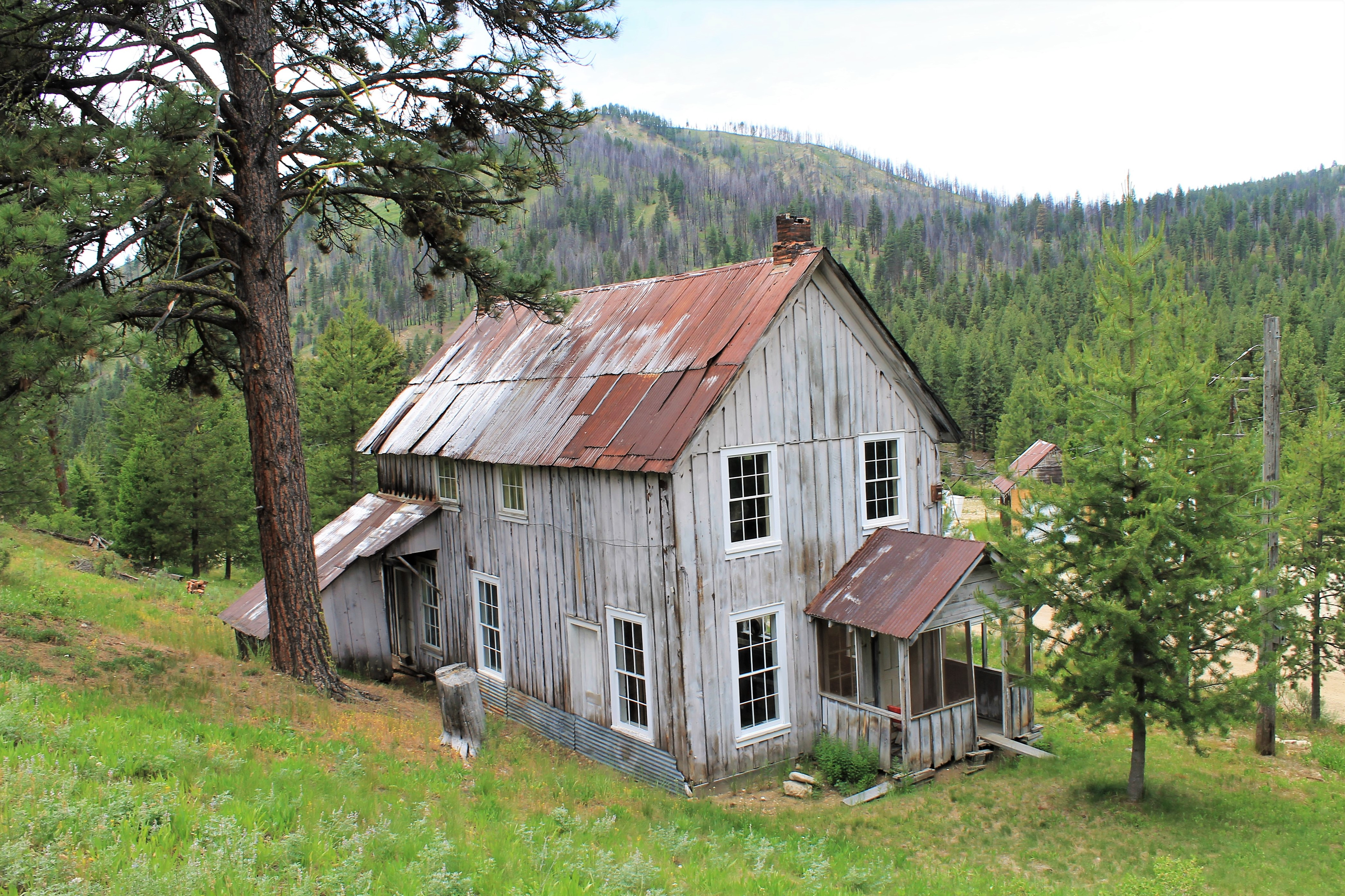 A historical home in the ghost town of Atlanta.